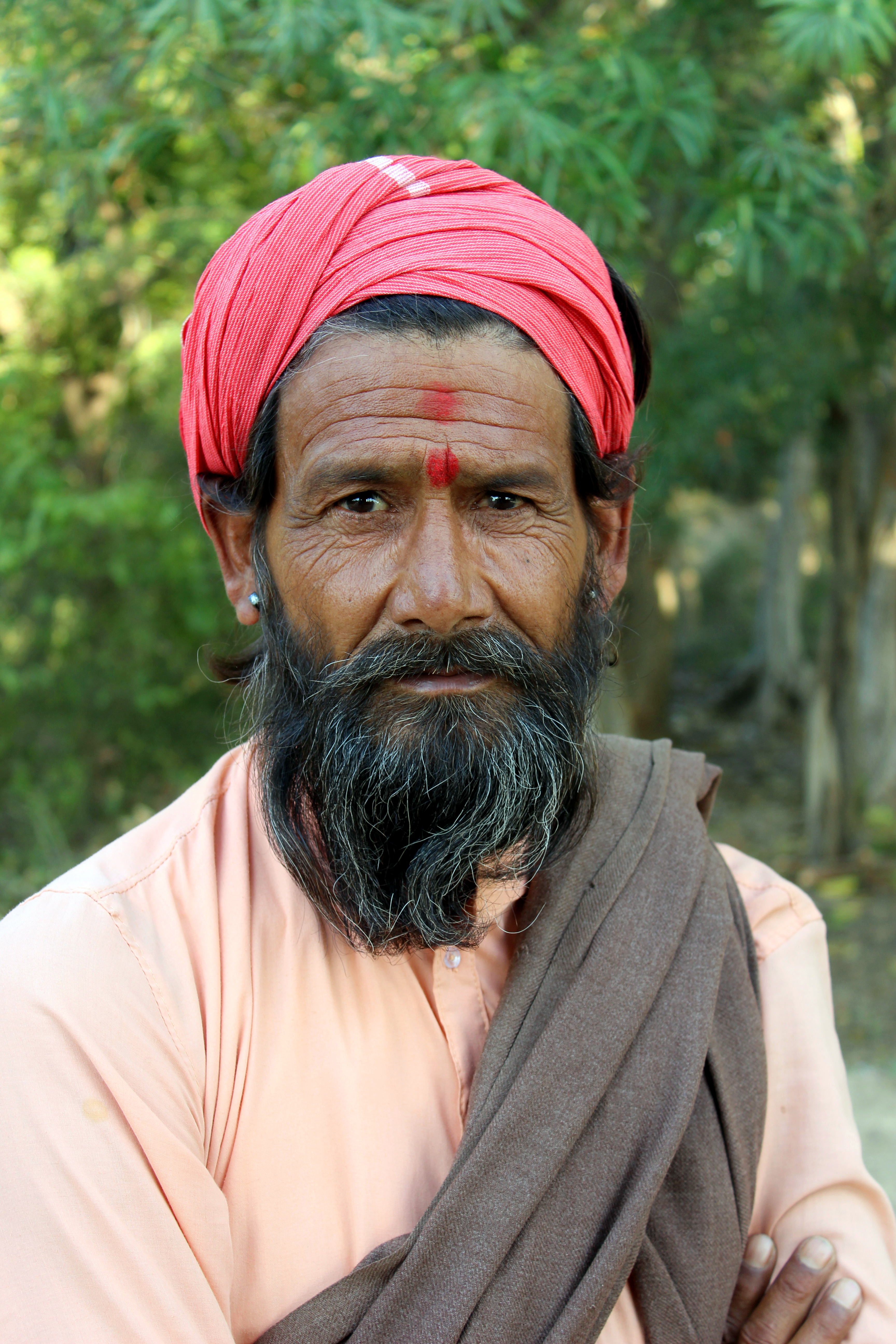 Sadhu in Mathura